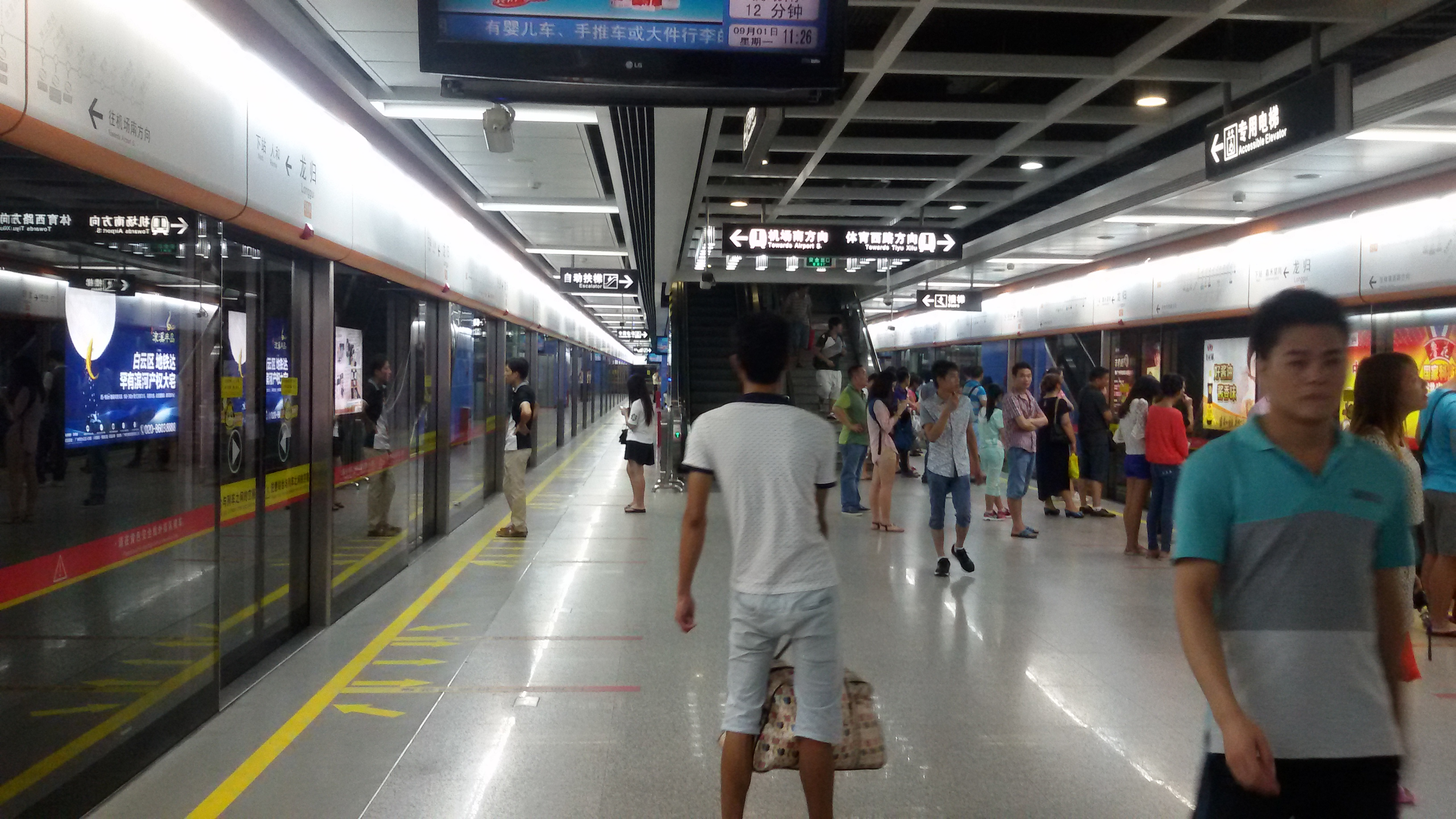 Station Platform for Longgui Station, Guangzhou Metro. 粵語: 廣州地鐵，龍歸站嘅站台。